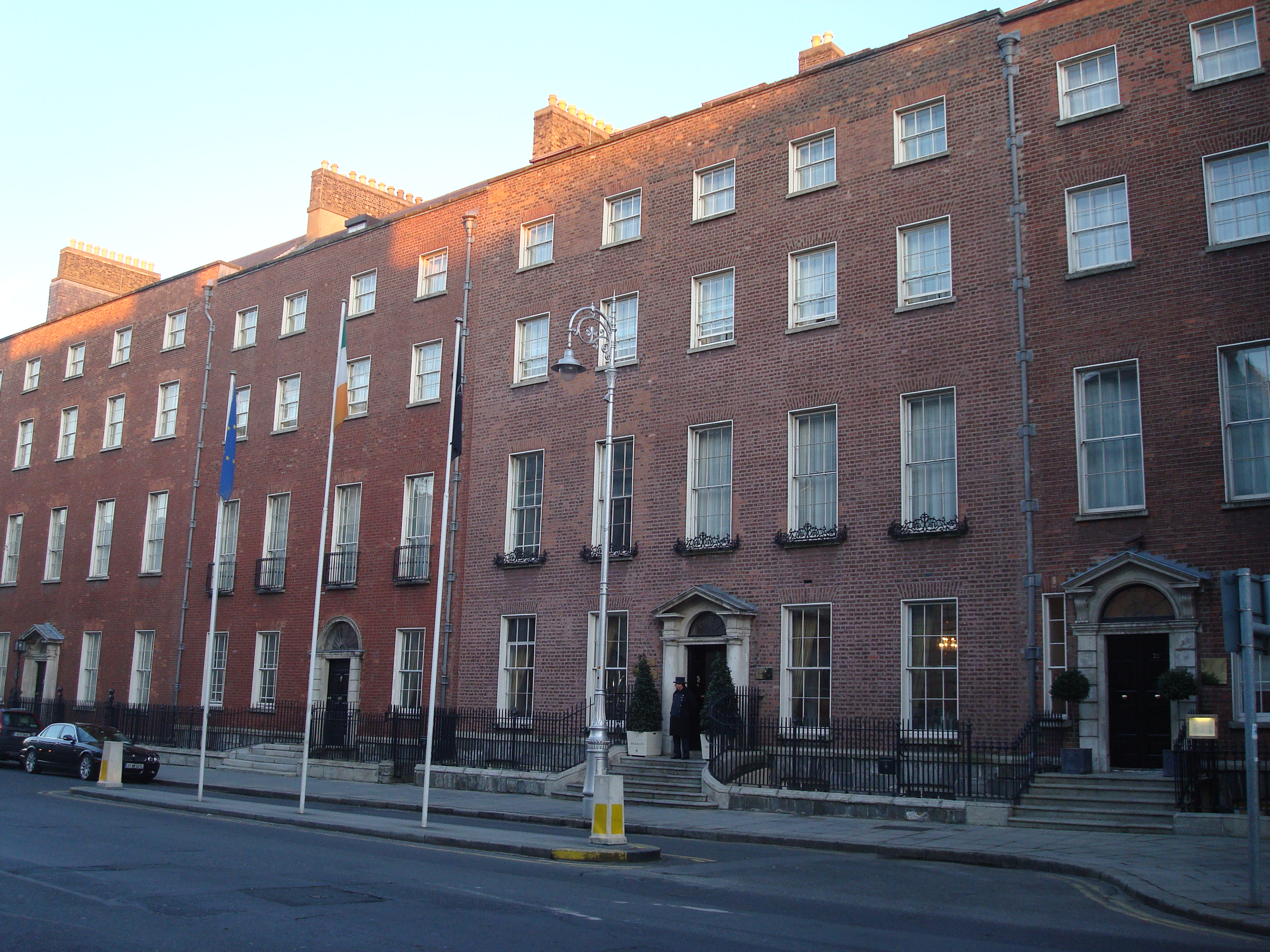 The Merrion Hotel on Mount Street Upper, Dublin, Ireland